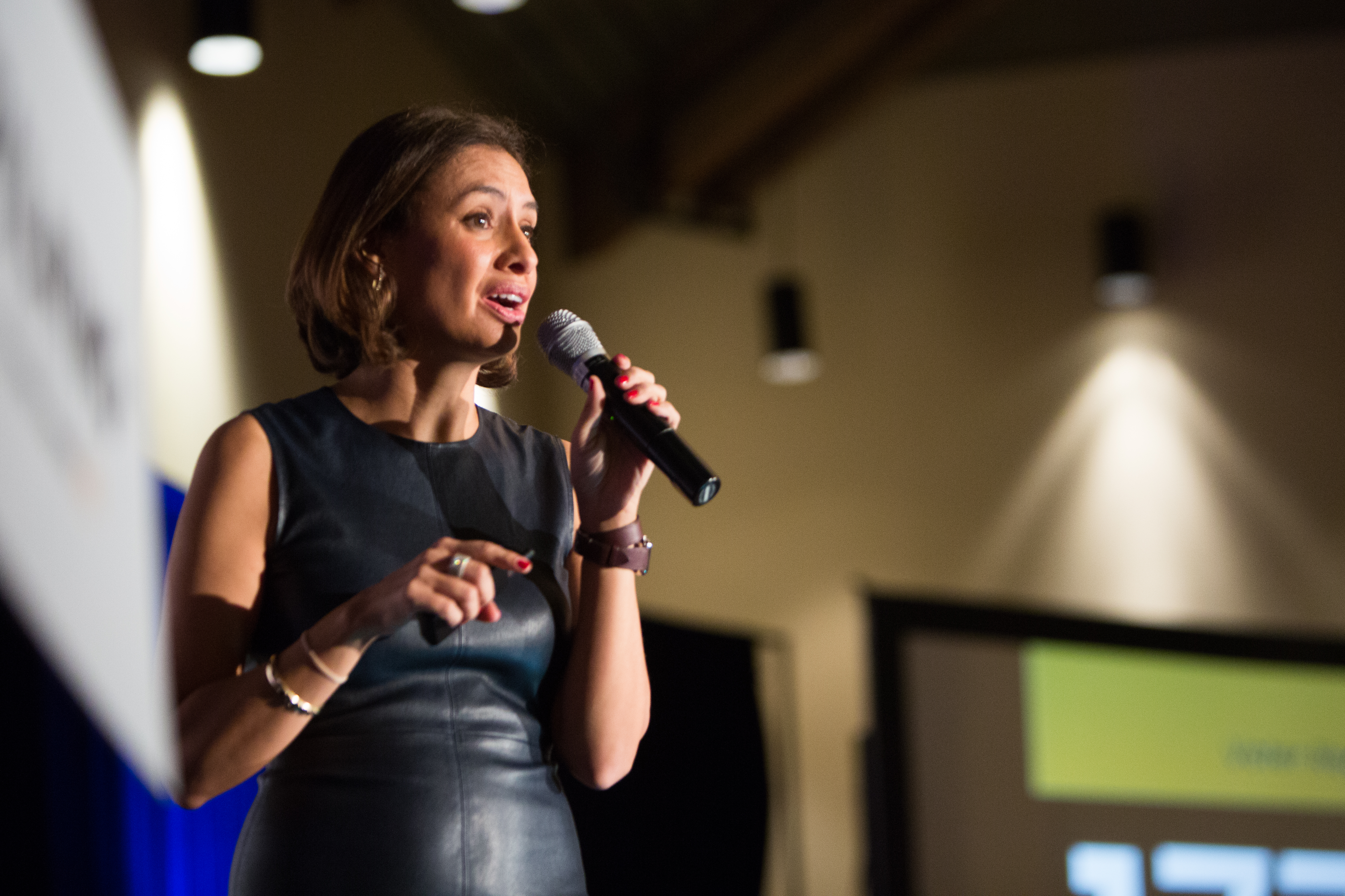 Voto Latino's Power Summit is composed of plenary conversations and breakout sessions. Our plenaries and worksop sessions focus on the 5 VL Power Summit Tracks: leadership, advocacy, media, tech, and organizing. Voto Latino is a non-profit civic-media organization that seeks to transform America by recognizing Latinos' innate leadership. through innovated digital campaigns, pop culture, and grassroots voices, we provide culturally relevant programs that engage, educate, and empower Latinos to be agents of change. Together, we aim to build a stronger more inclusive democracy.